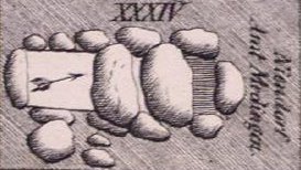 Megalithic tomb near Niendorf I, Sprockhoff-No. 761